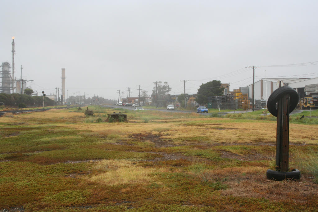 The site of Williamstown Racecourse railway station, Melbourne. You can see some remaining stanchion bases